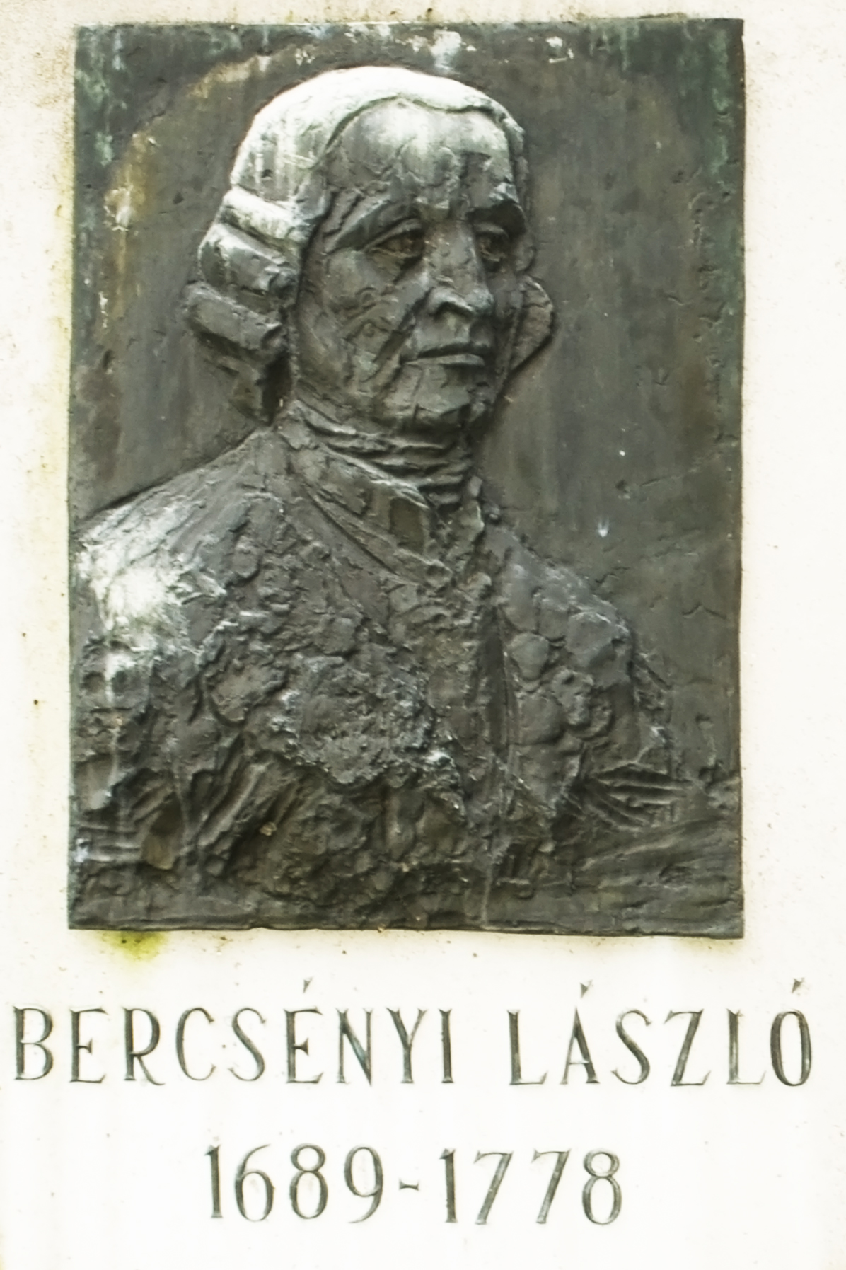 Relief of Ladislas Ignace de Bercheny in the park of the Vaja Castle, Hungary – József Rátonyi, 1979